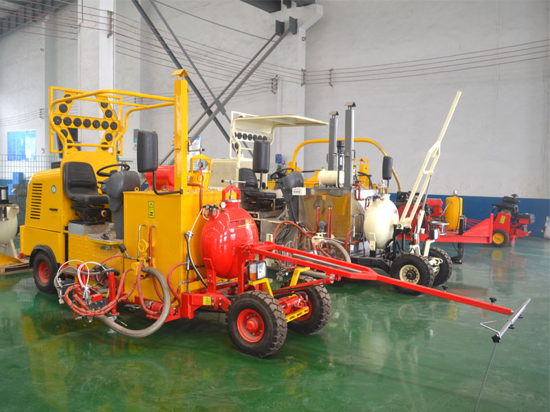 Driving-type Road Marking Machine, Thermoplastic Spraying Type